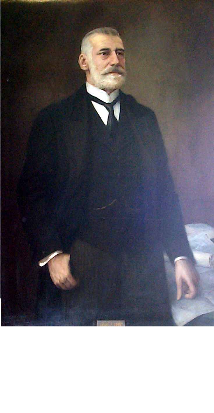 Mihály Kajlinger.